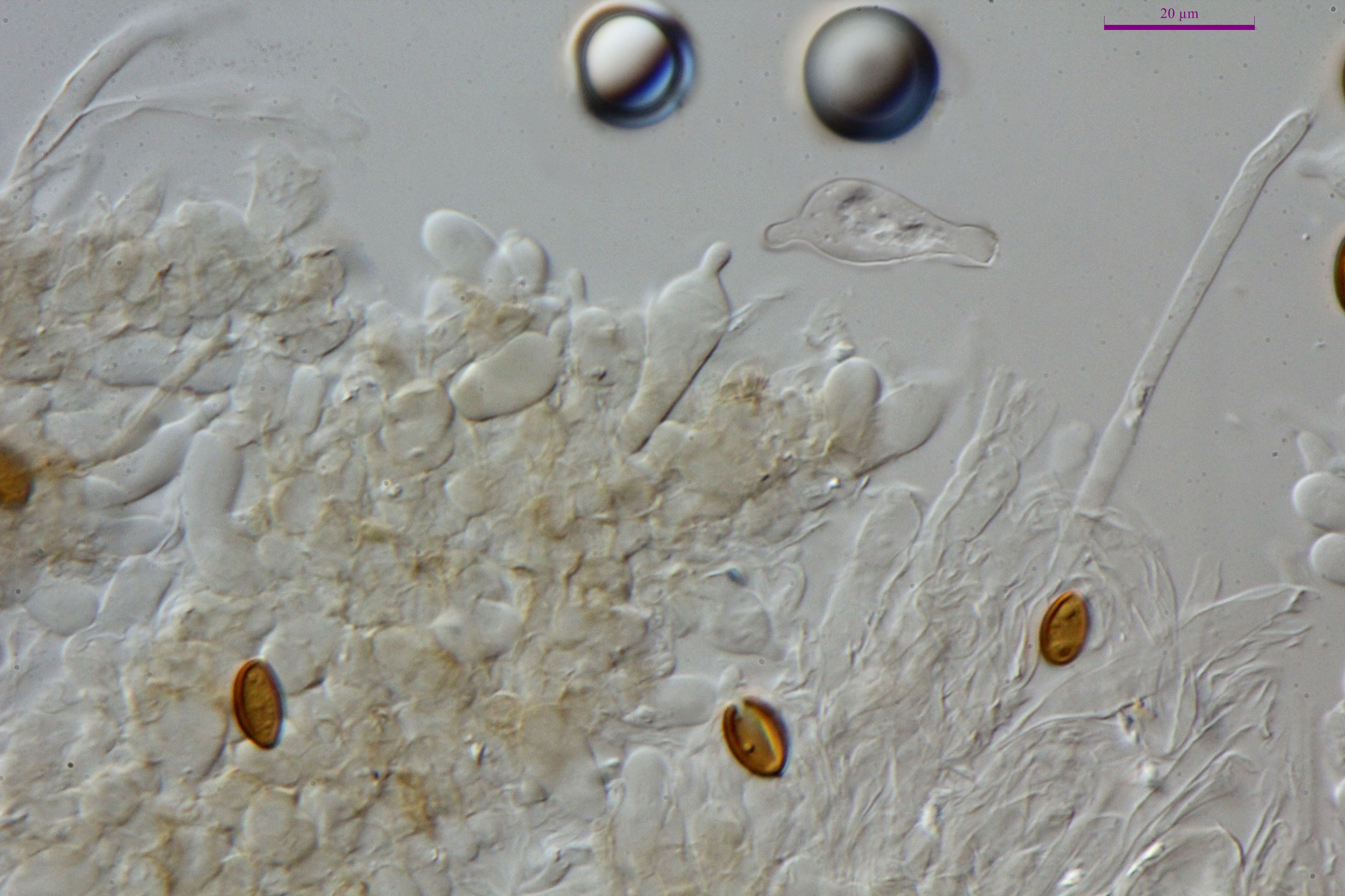 Psilocybe subaeruginosa pleurocystidia 600x, with DIC illumination